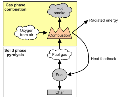 Demonstration of difference between combustion and pyrolysis